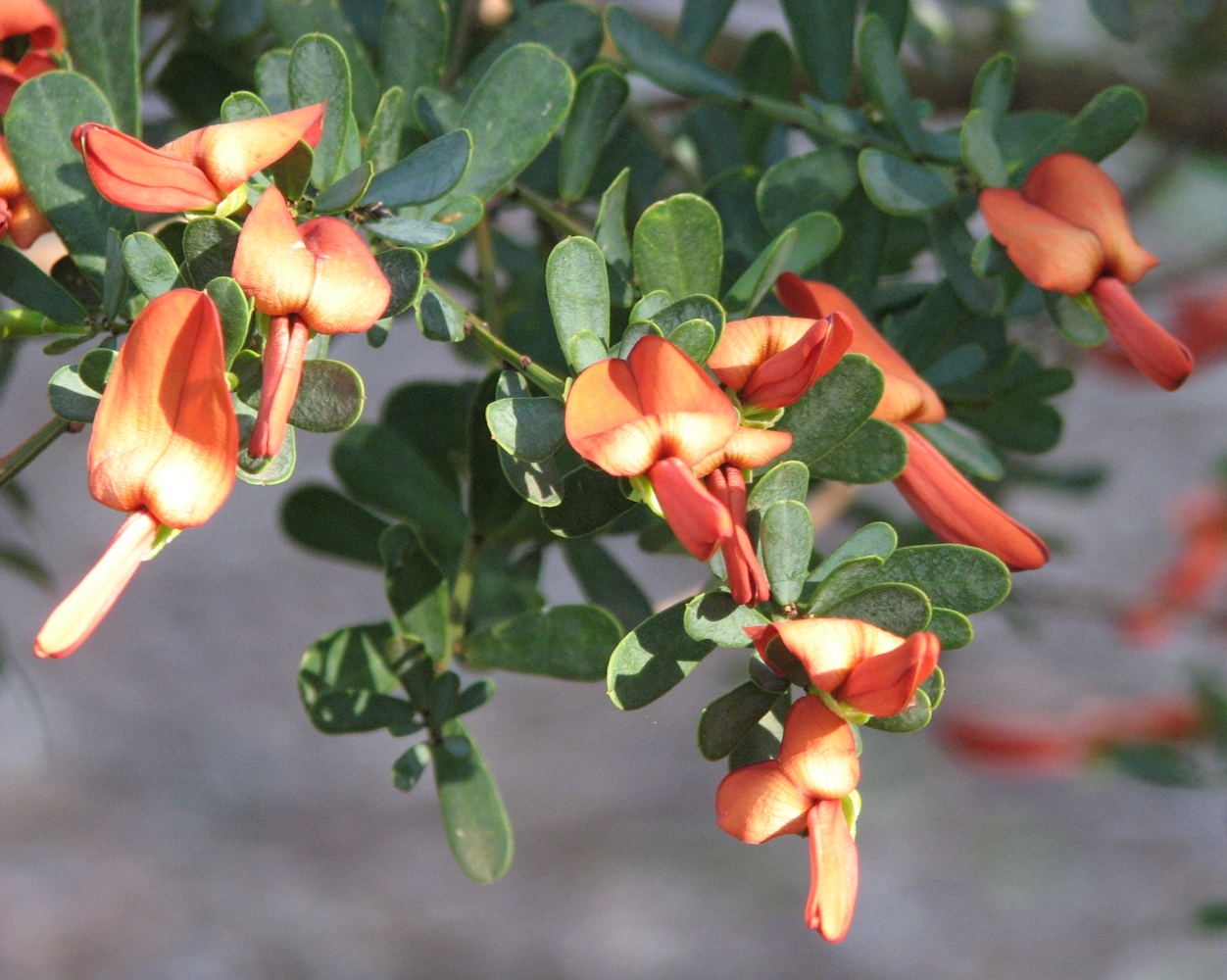 Templetonia retusa (cultivated, labelled) Maranoa Gardens, Balwyn, Victoria, Australia